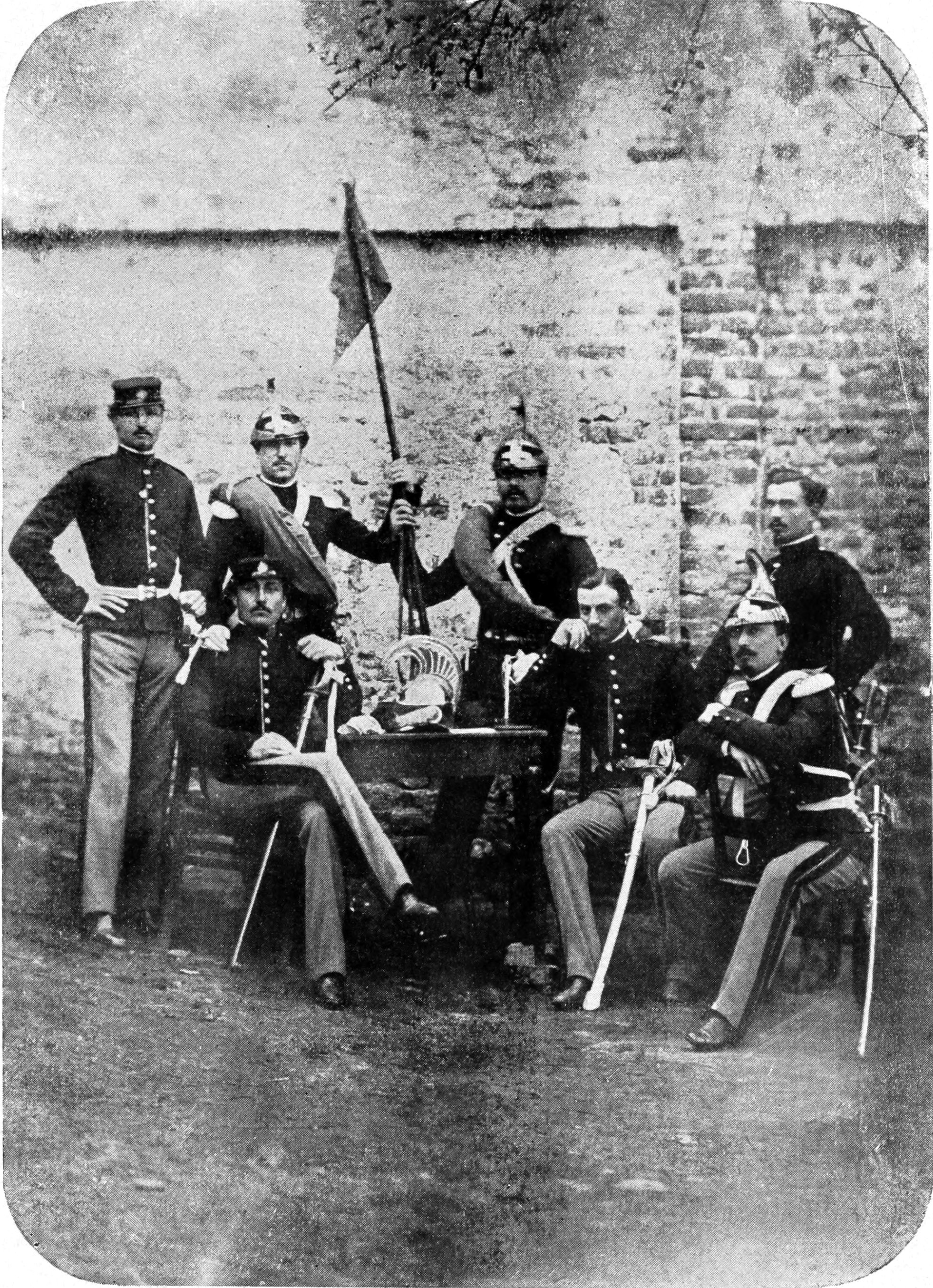 Image from book: Leopoldo Pullè, Patria Esercito Re, Ulrico Hoepli, Milan, 1908.